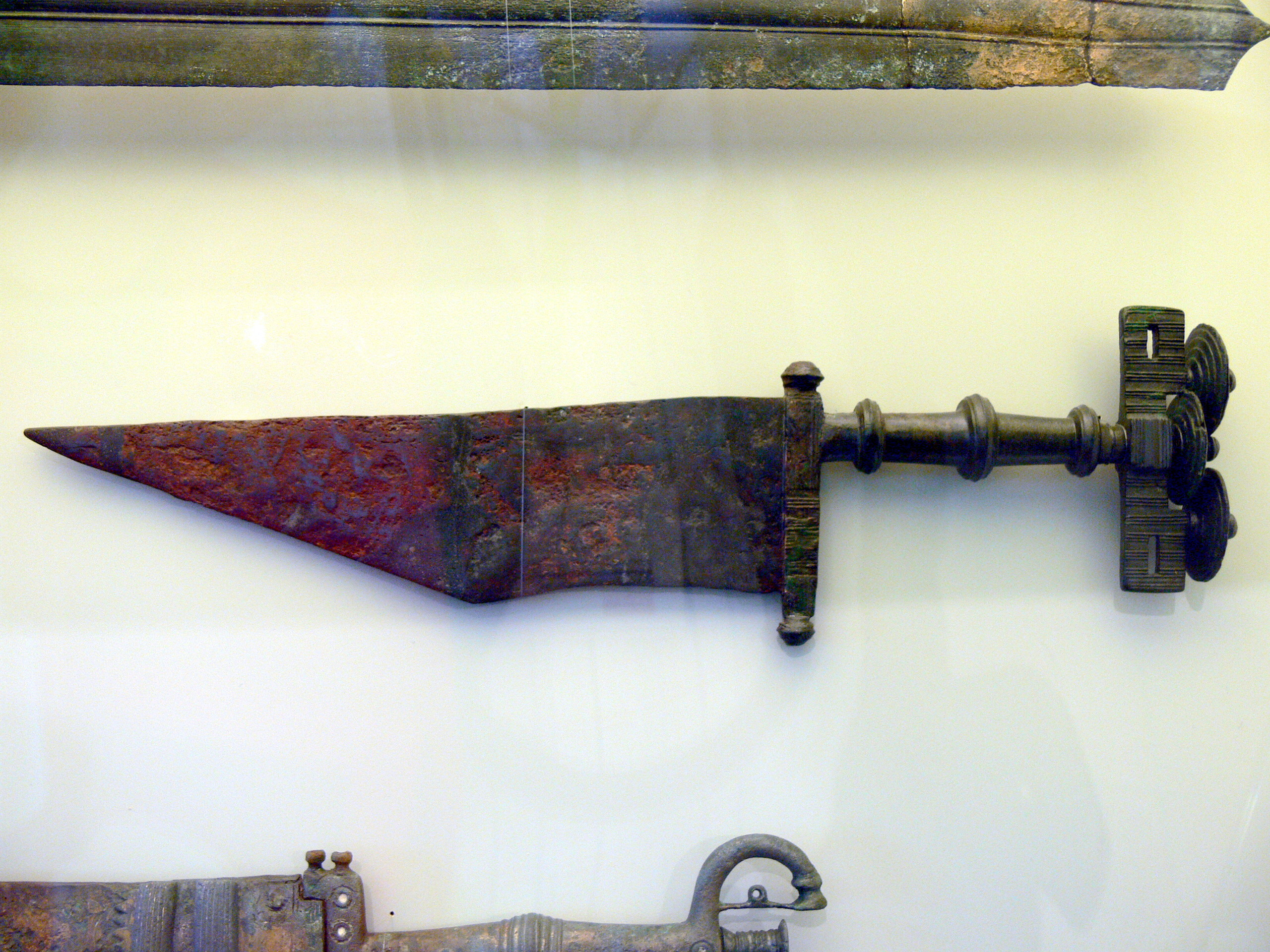 Castle museums in Linz ( Upper Austria ). Archeological collection: So called "Antenna dagger" from Siedelberg-Pfaffstätt, Hallstatt culture.